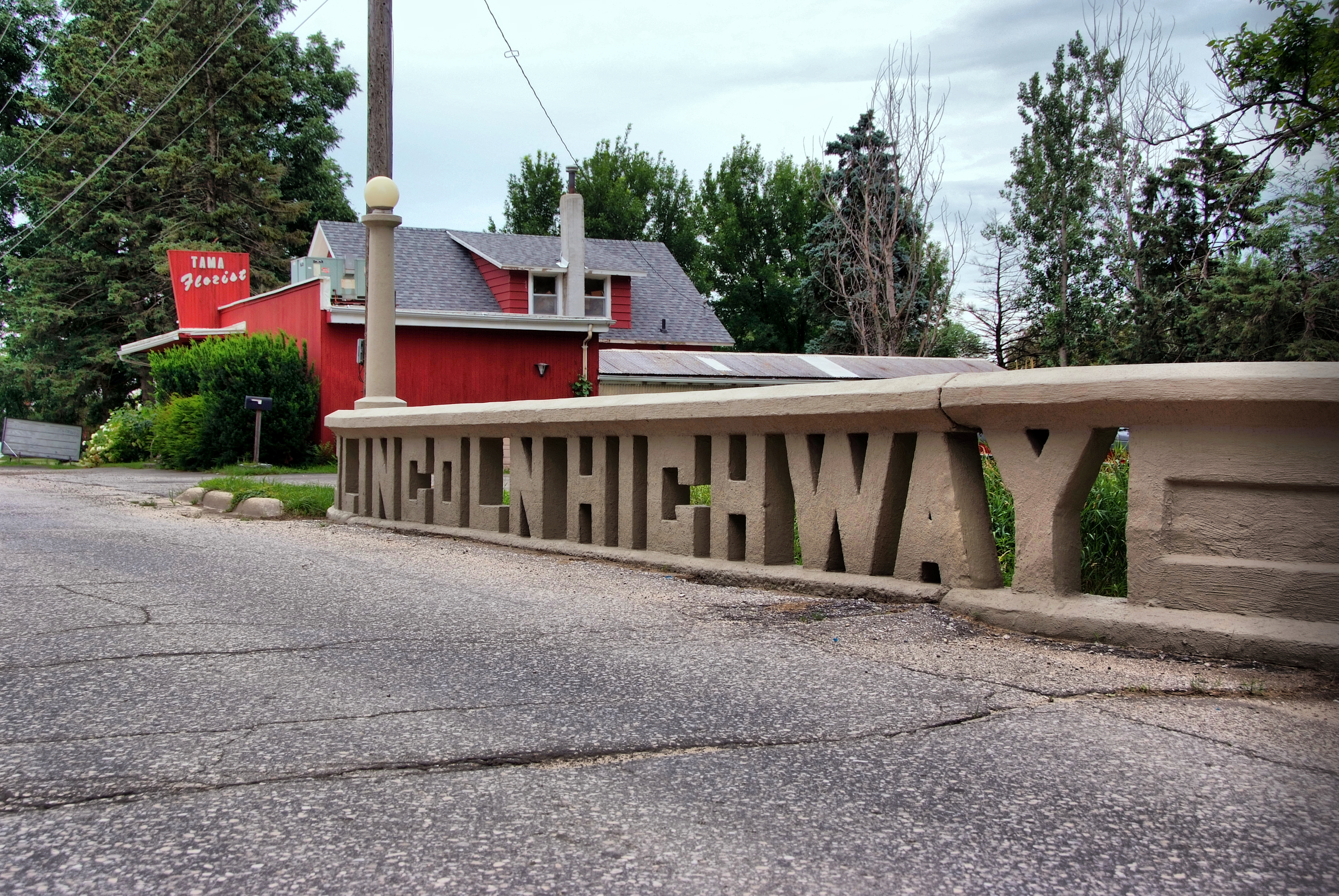 One of the original concrete bridges on the "Lincoln Highway"